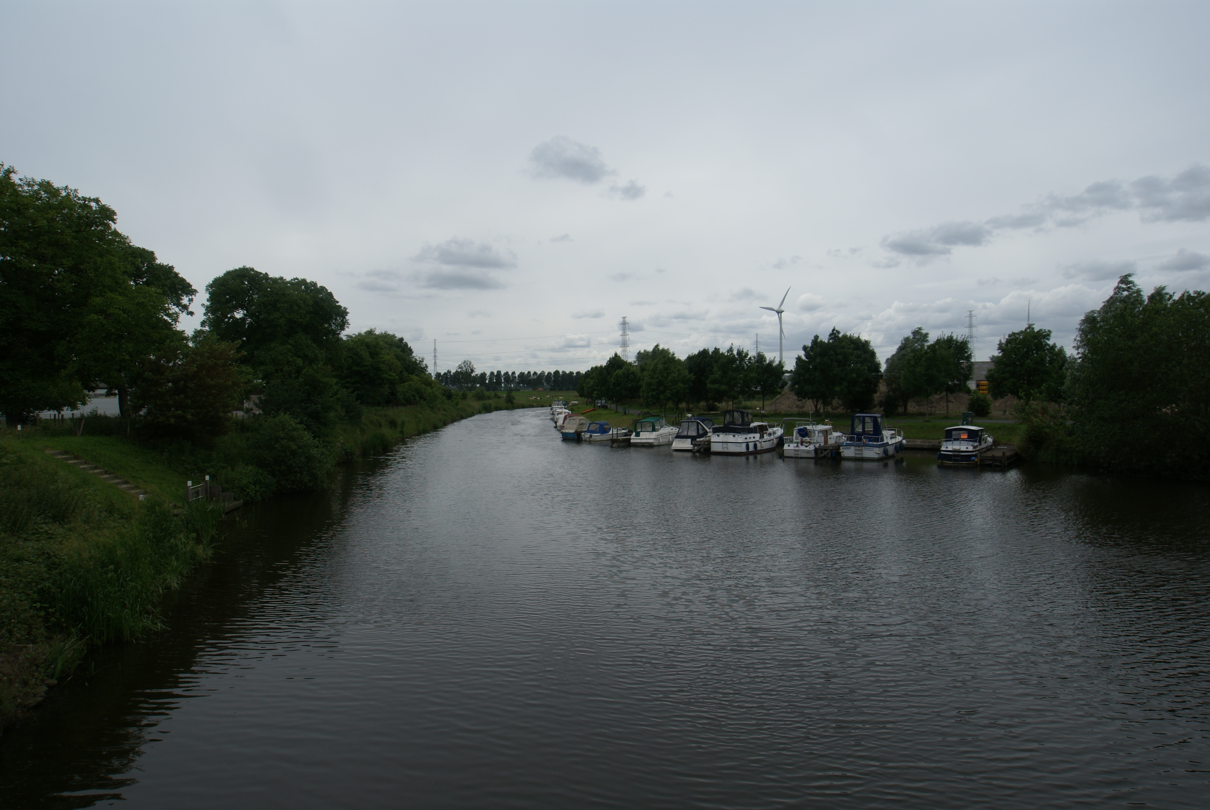 Eeklo (Belgium): canal Eeklose Vaart - marina